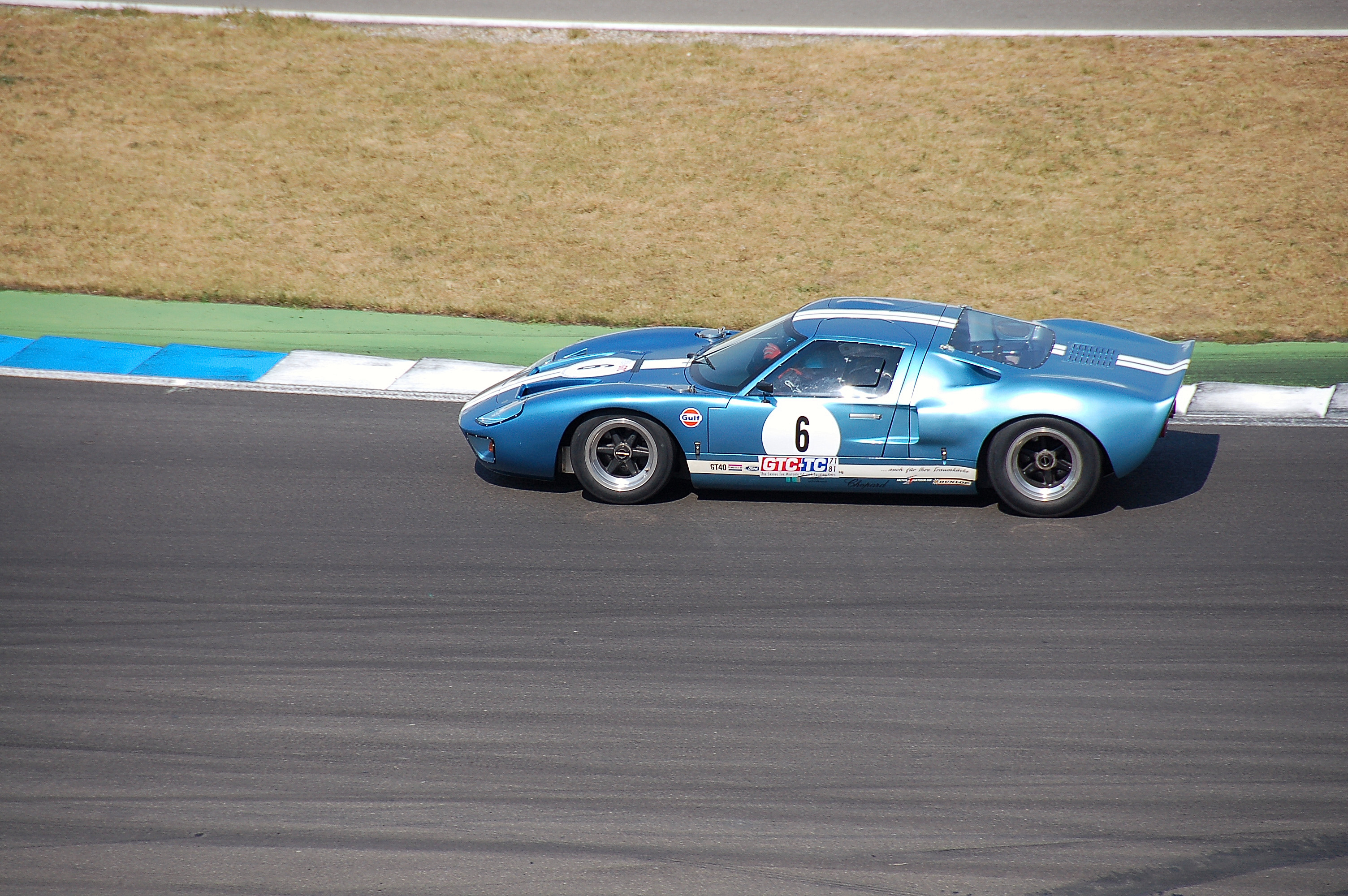 Ford GT40 at the Jim Clark Revival 2007 in Hockenheim